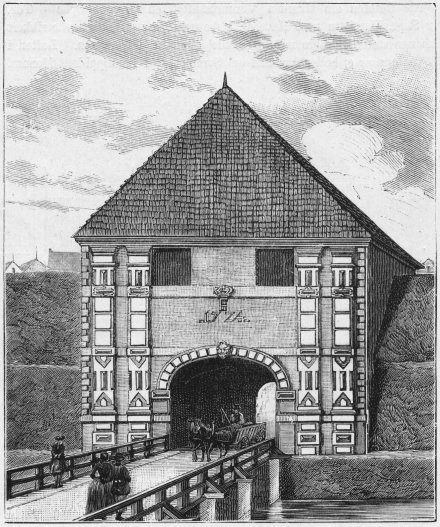 The gate was build in 1724 to replace a older gate. It was torn down i 1857.